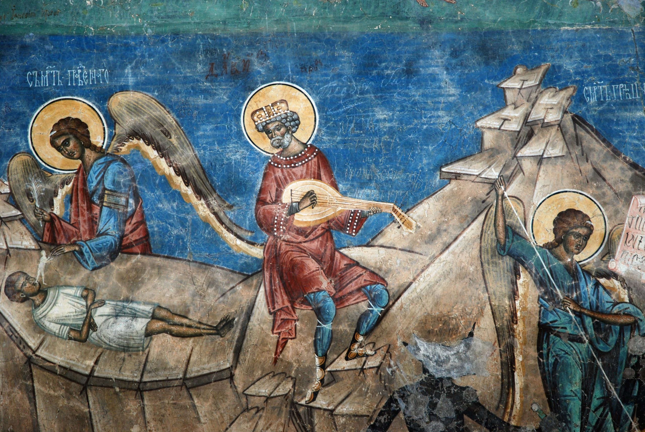 Cobză, Voroneț Monastery